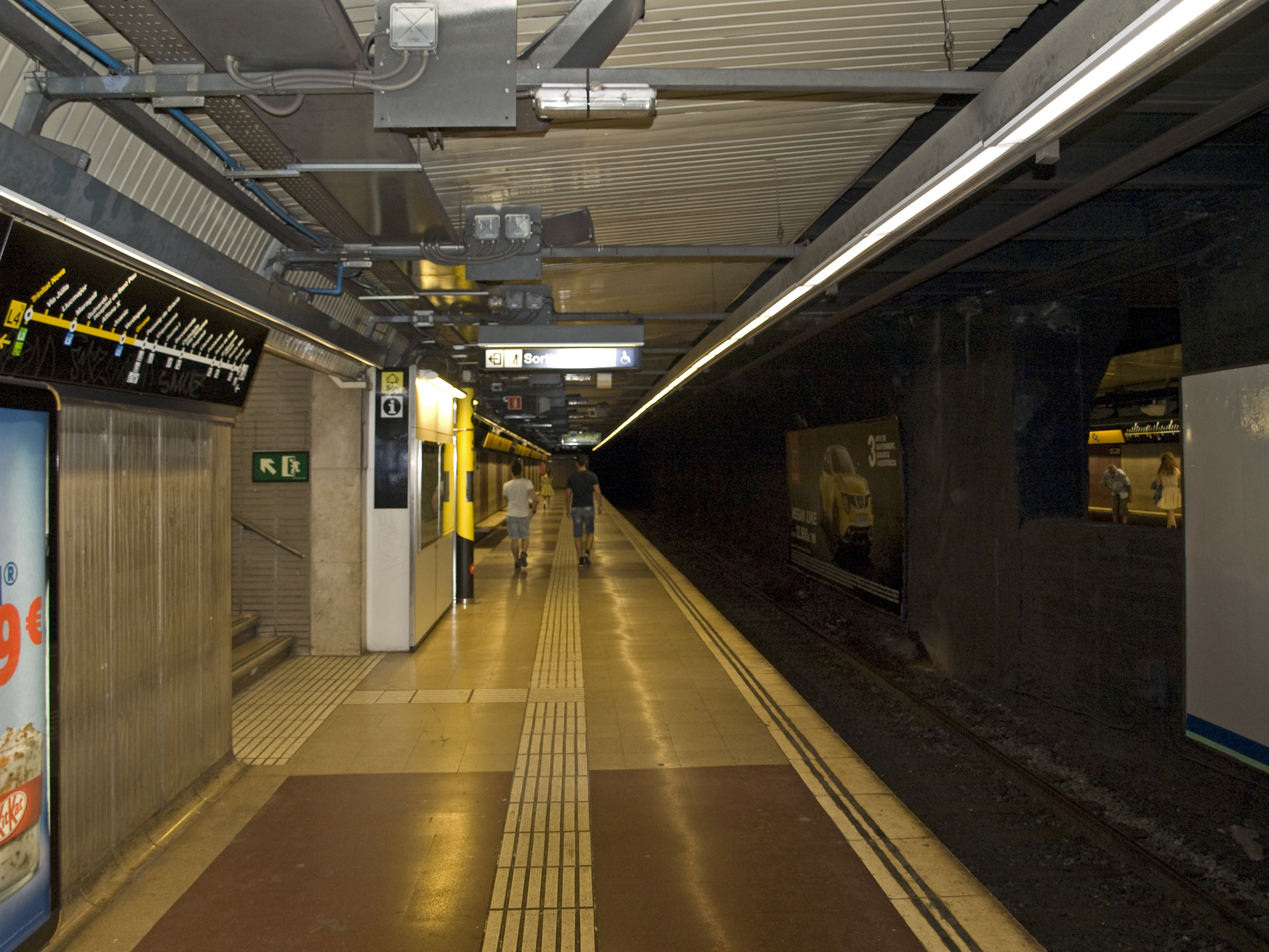 Girona metro station, Line M4, northbound platform, Barcelona